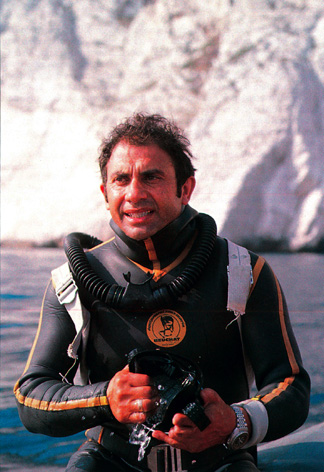 Mr. Albert Falco wearing Tarzan wetsuit from Beuchat